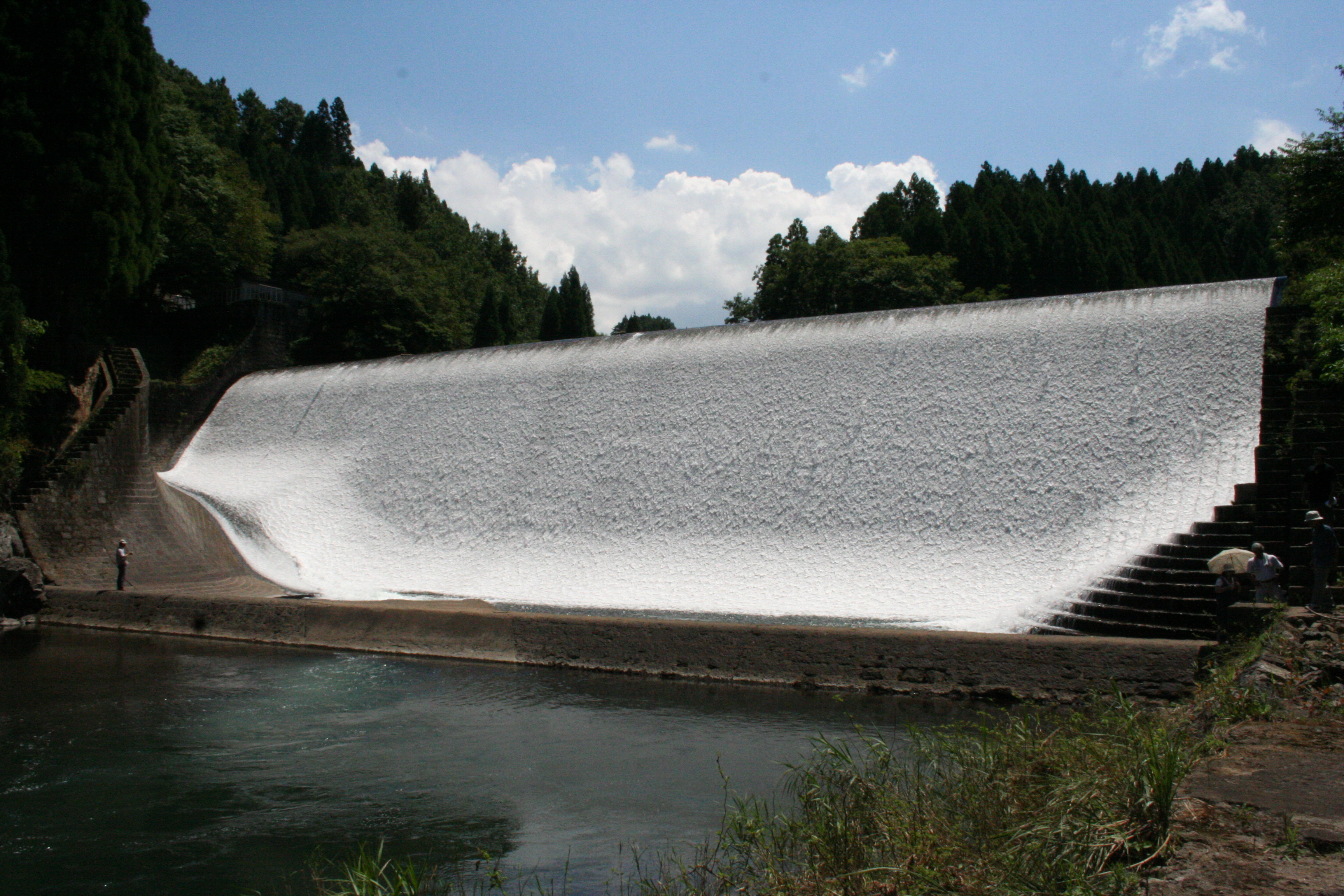 Description: Hakusui Dam(1938). Takeda-city, Oita Prefecture, Japapn. Important Cultural Property (Civil Engineering) of Japan. 白水溜池堰堤(1938竣工)。大分県竹田市。国の重要文化財。 Source: self-made Date=2007/08/17 Photographer: Tsutsui Mizuki